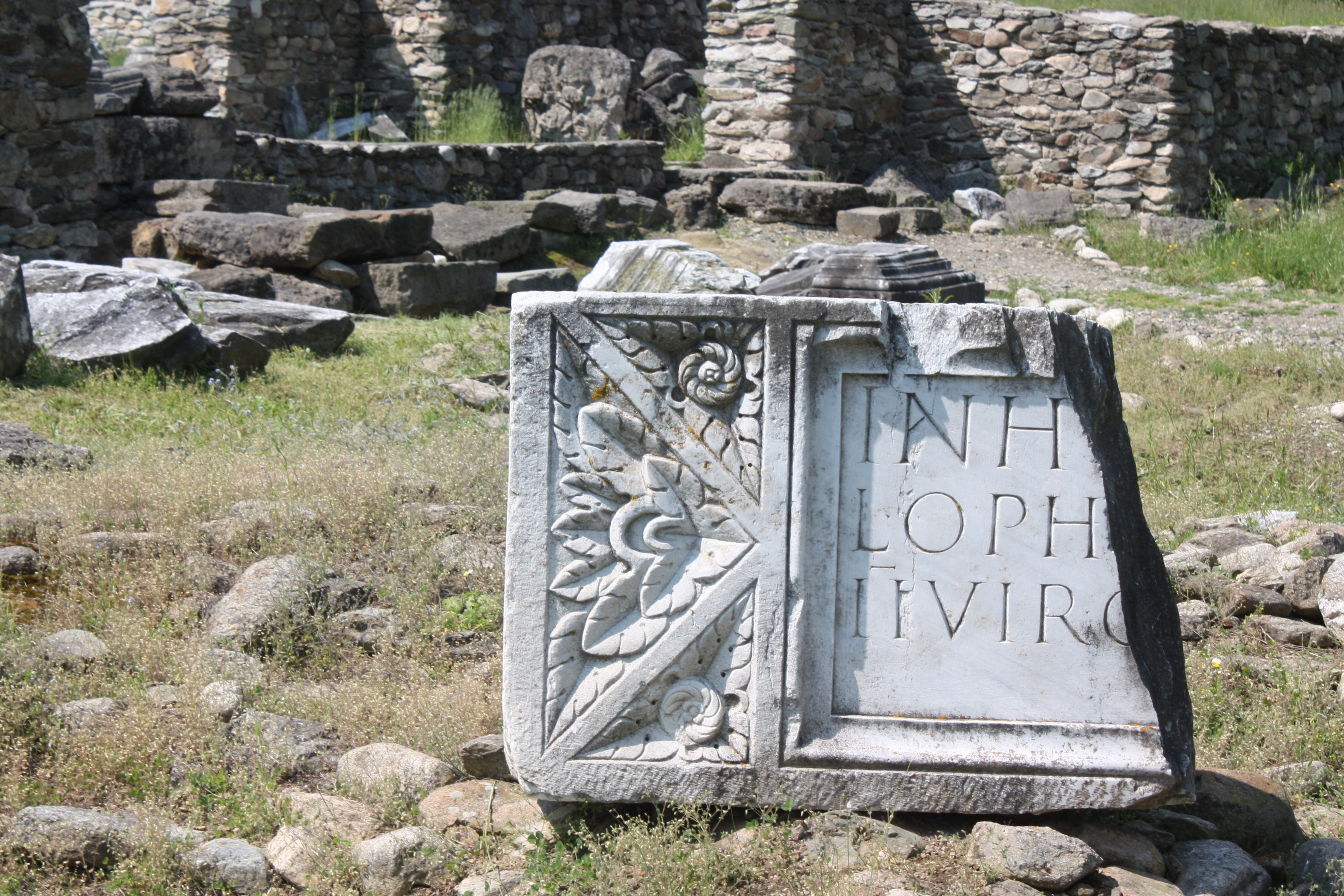 Part of the inscription over the portal in the forum in Ulpia Traiana Sarmizegetusa. AE 1968, 441 = AE 2003, 1520: In honorem domus divinae / L(ucius) Ophonius Pap(iria) Domitius Priscus / IIvir col(oniae) Dacic(ae) pecunia sua fecit / l(ocus) d(atus) d(ecreto) d(ecurionum)